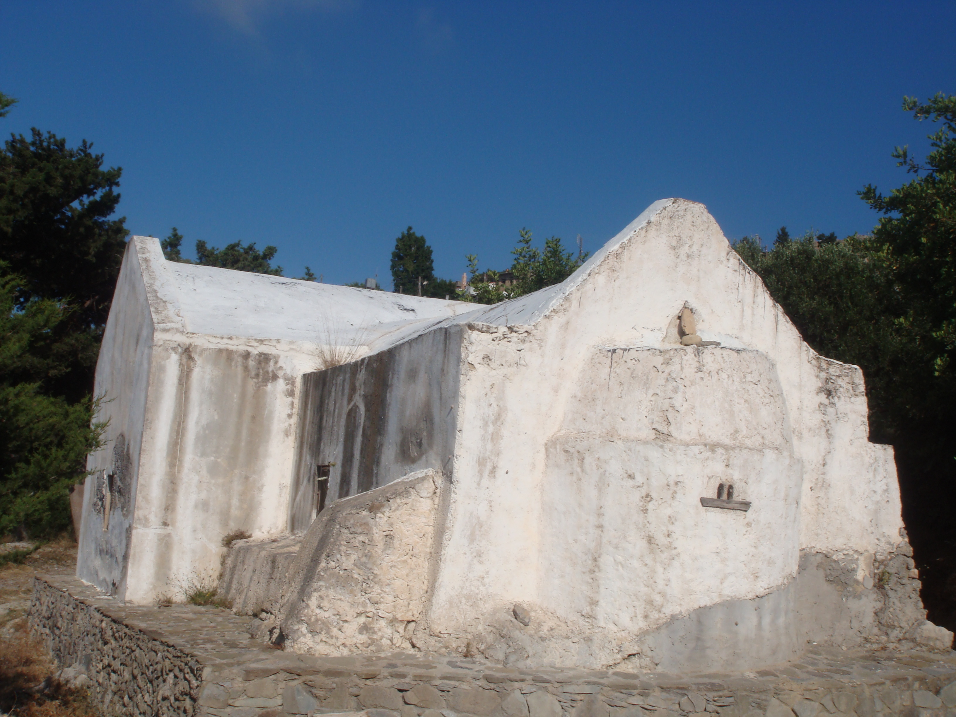 Church of Agios Georgios in Schinokapsala, a village in Lasithi prefecture. The settlement stems its name from a plant.